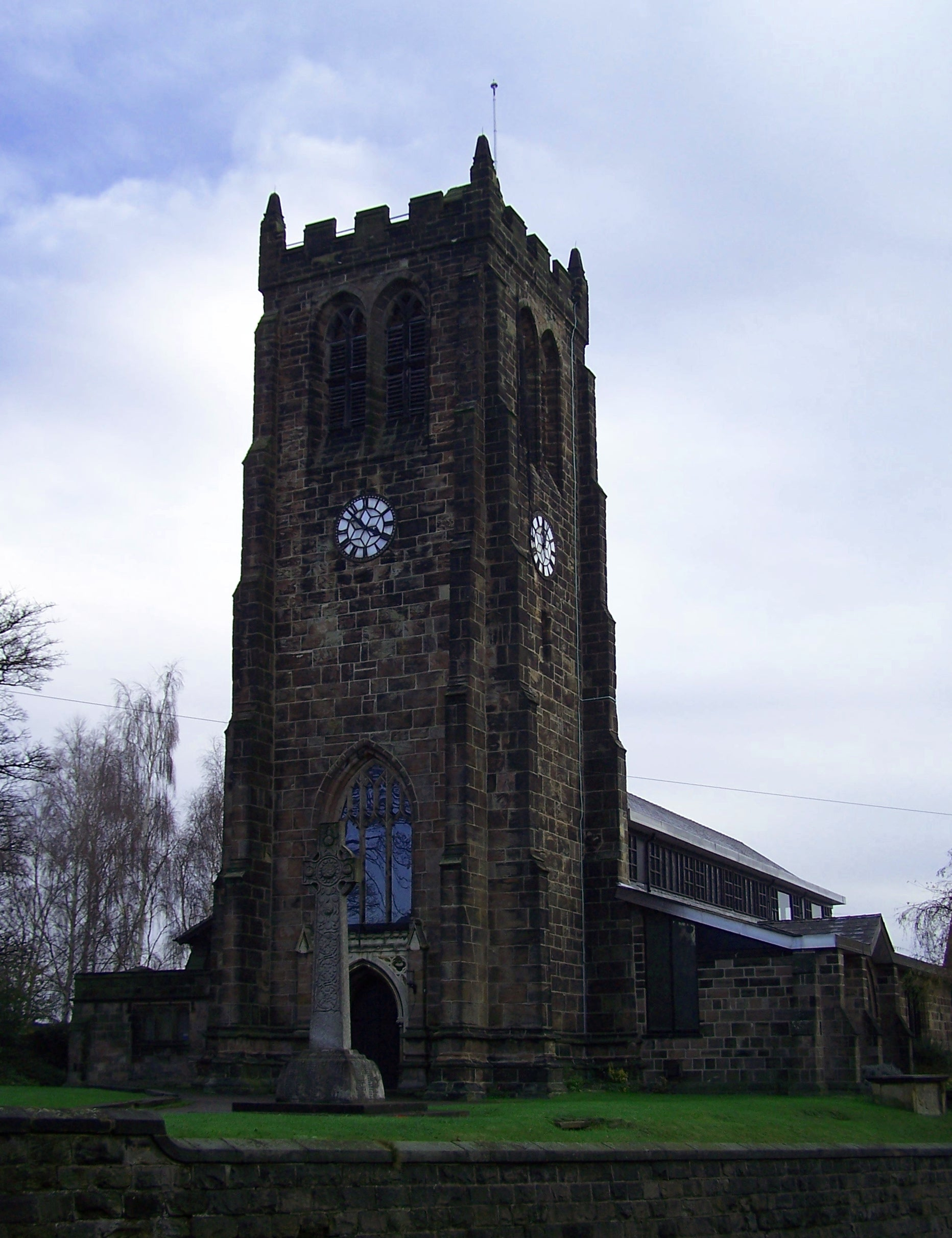 St Lawrence's Church Heanor Derbyshire photo by Russ Hamer